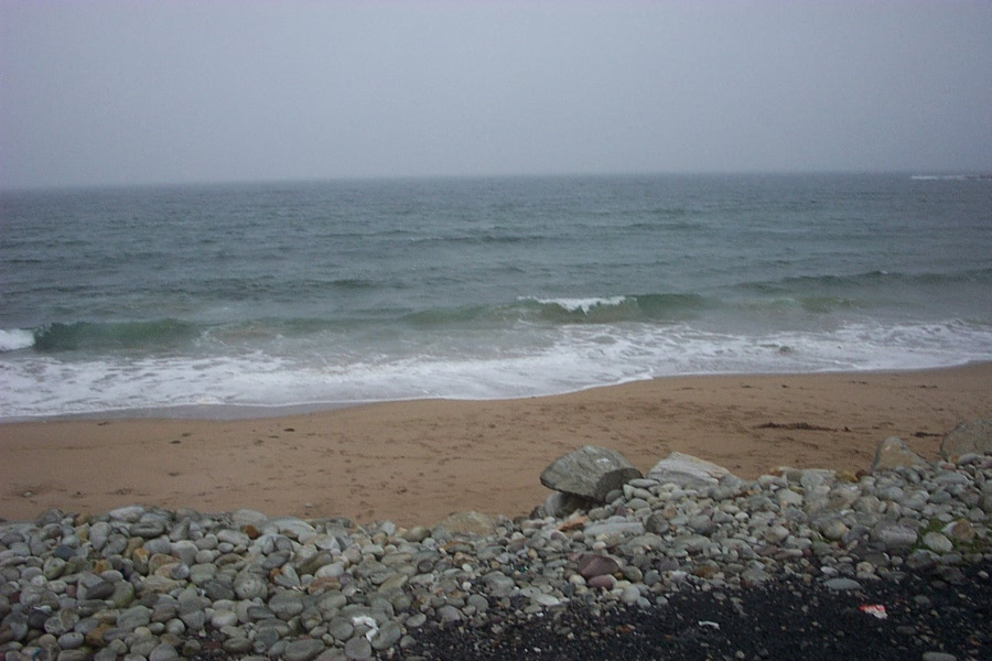 Achill Ireland Keel